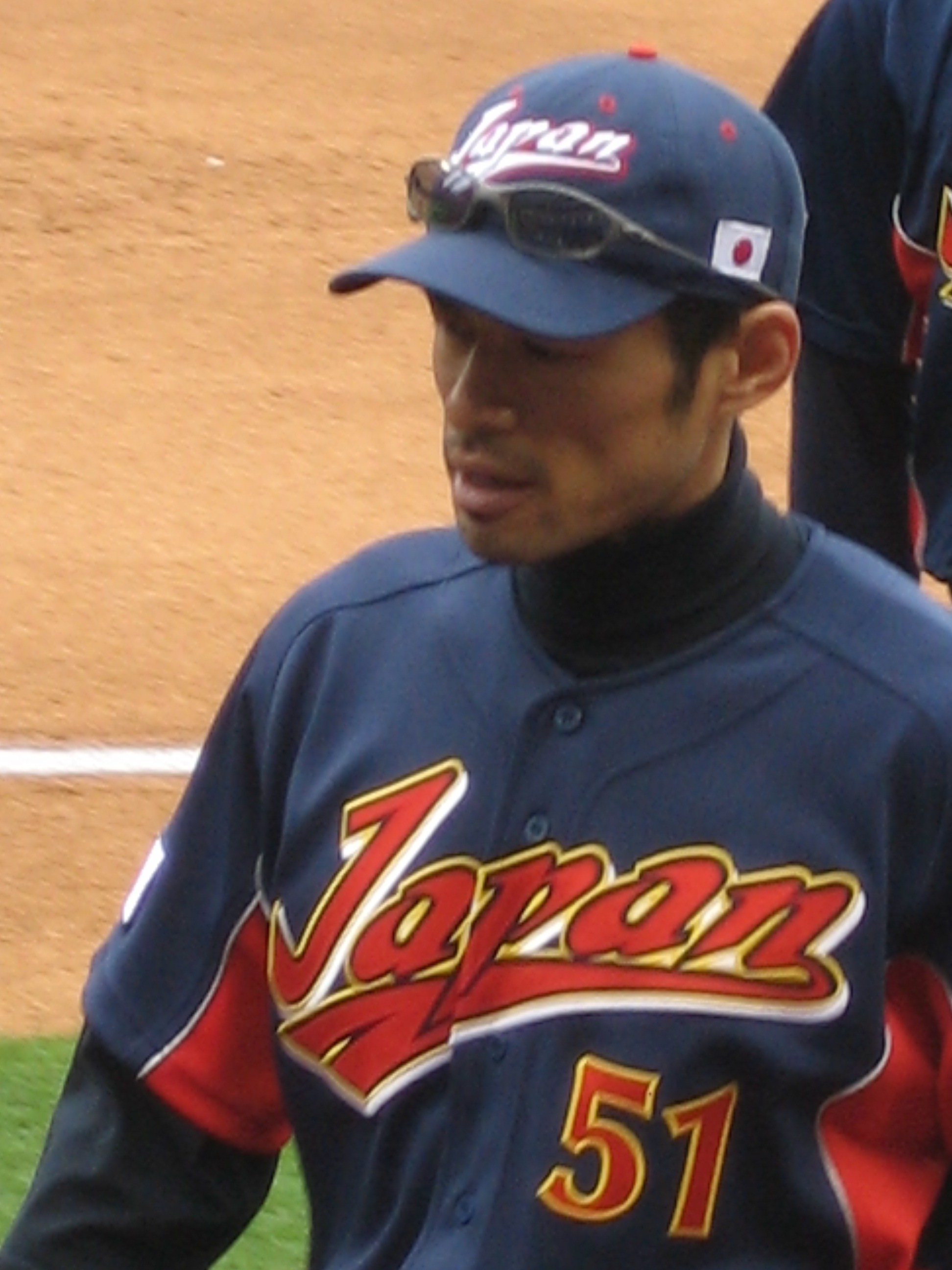 Description Ichiro Suzuki at World Baseball Classic DateMarch 2006SourceOwn workAuthorCbl62 (talk) 04:15, 6 March 2008 . . Cbl62 . . 1,944×2,592 (646 KB) Ichiro Suzuki at World Baseball Classic